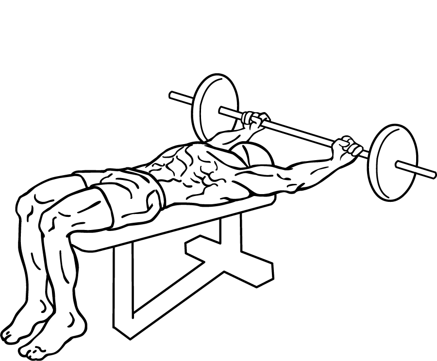 an exercise of upper back